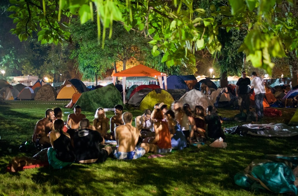 Exit Village by night 2012.Srpski (latinica): Egzit selo noću 2012. godine.